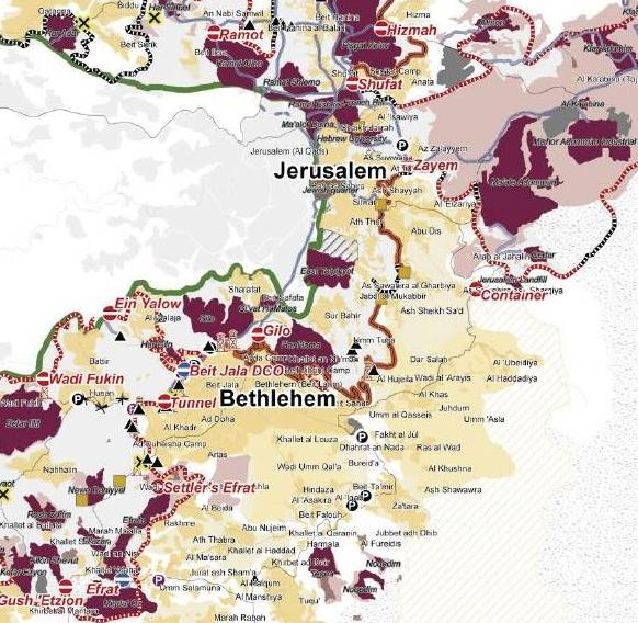 Piece of Image:Westbankjan06-modiin-jerusalem-etzion.jpg